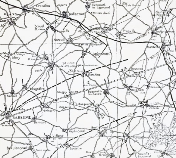 Map of the area crossed by the 5th Australian Division during the advance to the Hindenburg Line, 17 March - 6 April 1917